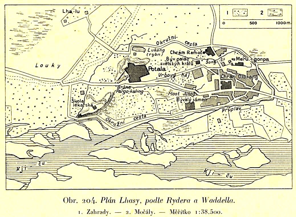 Map of Lhasa in the beginning of 20th century. The descriptions are in Czech.